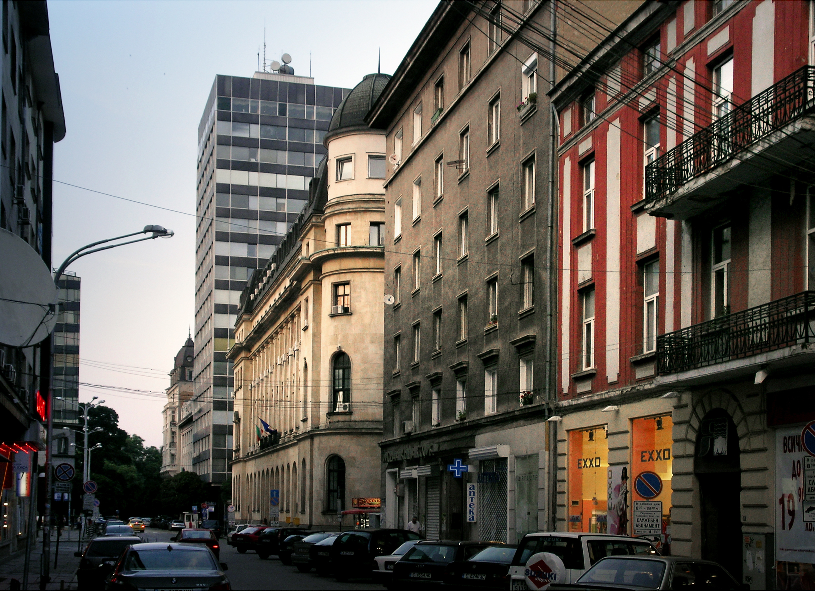 Dyakon Ignatiy Street in the very centre of Sofia, Bulgaria: the Central Post Office (center) and the high-rise building of the Ministry of Transport